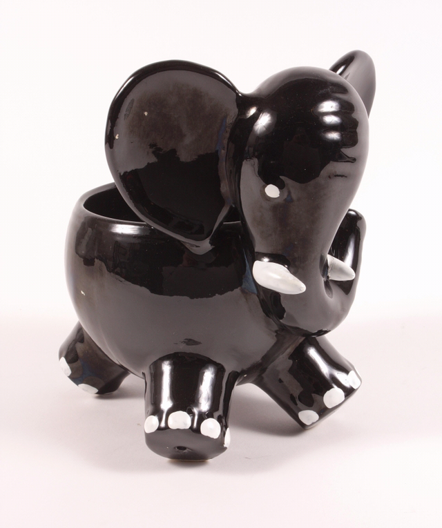 Kocis Elefant, wurde massenhaft produziert. Bestbekannter Entwurf der Nachkriegskeramik